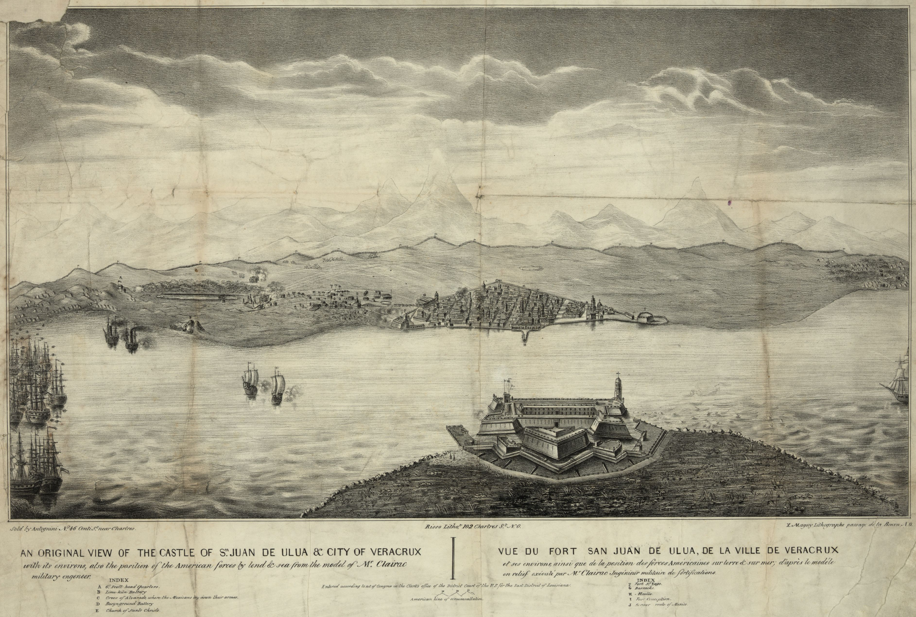 An original view of the castle of Sn. Juan de Ulua & city of Veracruz